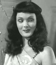 screenshot of Totò Sceicco (1950)